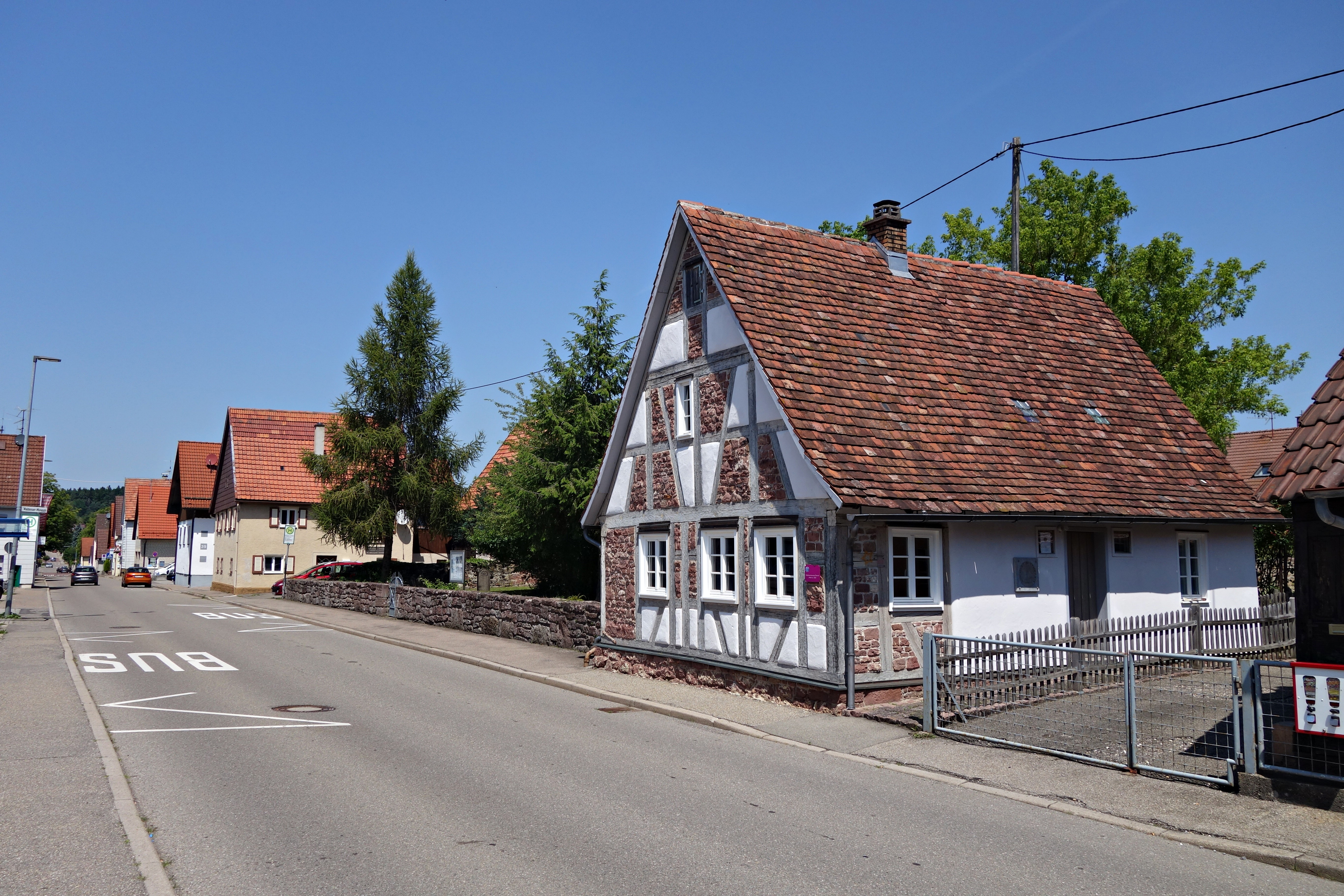 Waldensians-museum in Neuhengstett. There is the old Waldensians-cemetery to its left side.